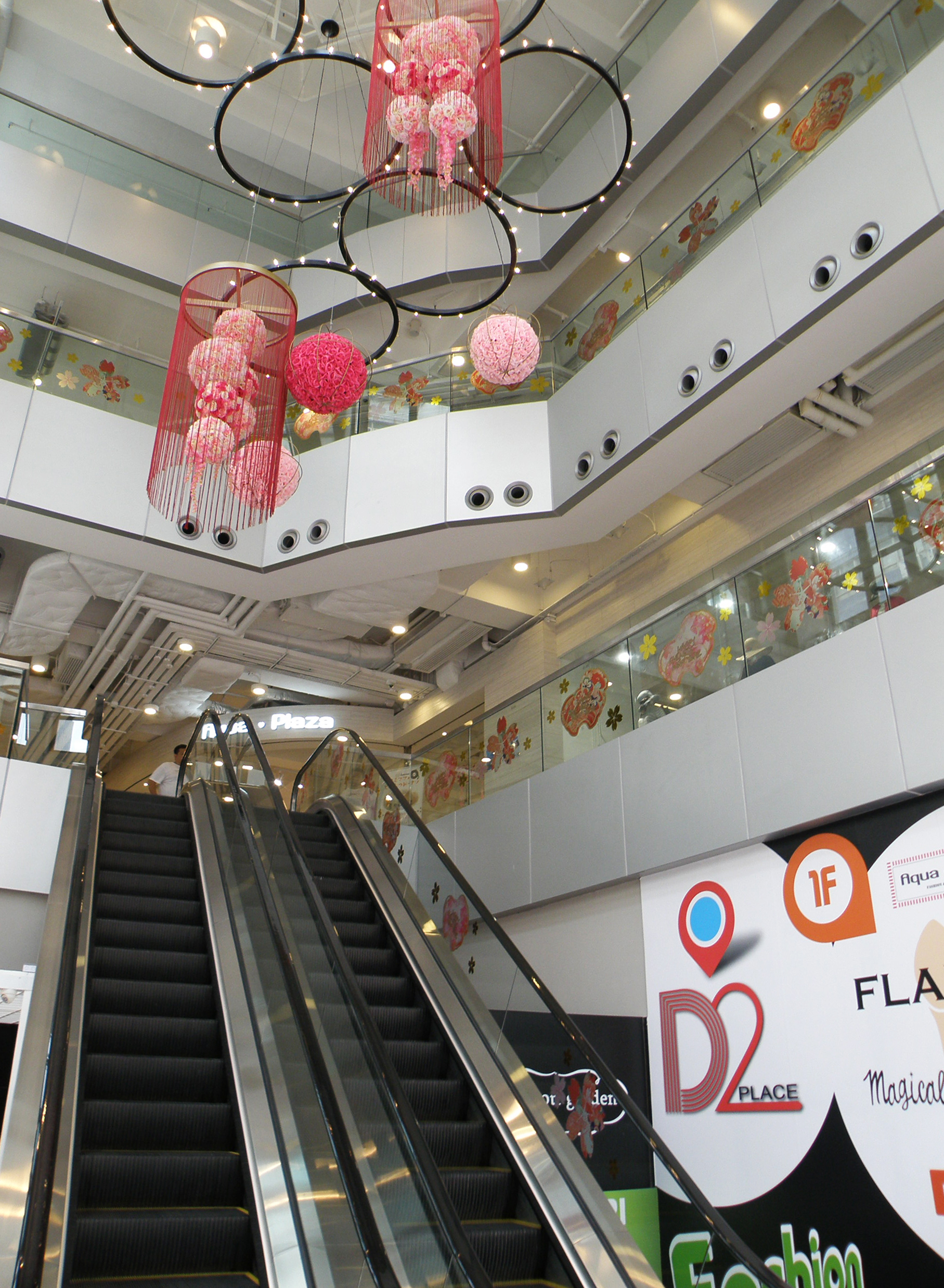 D2 Place in Lai Chi Kok, Hong Kong.